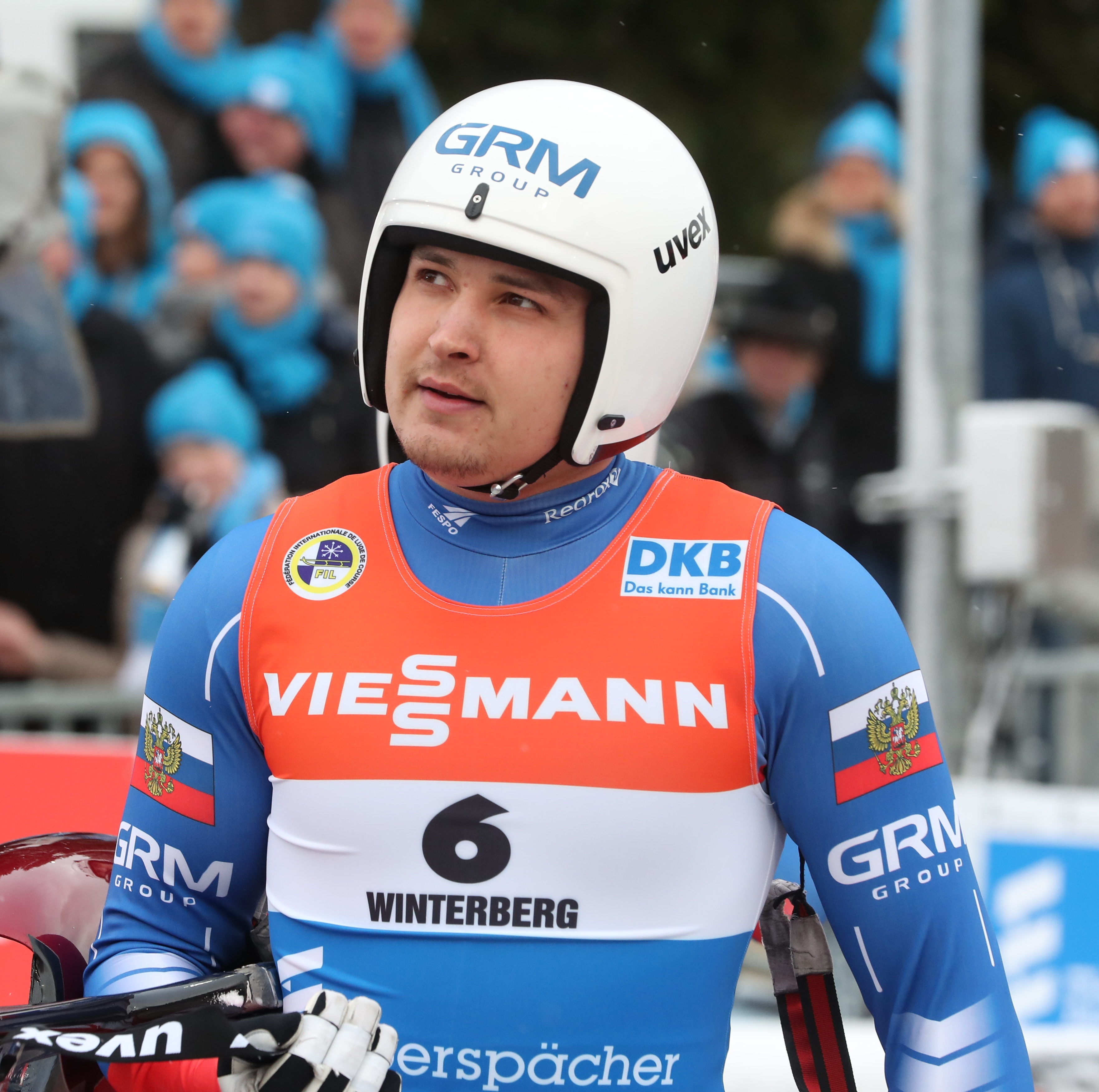 Luge World Cup Doubles in Winterberg: Andrey Bogdanov